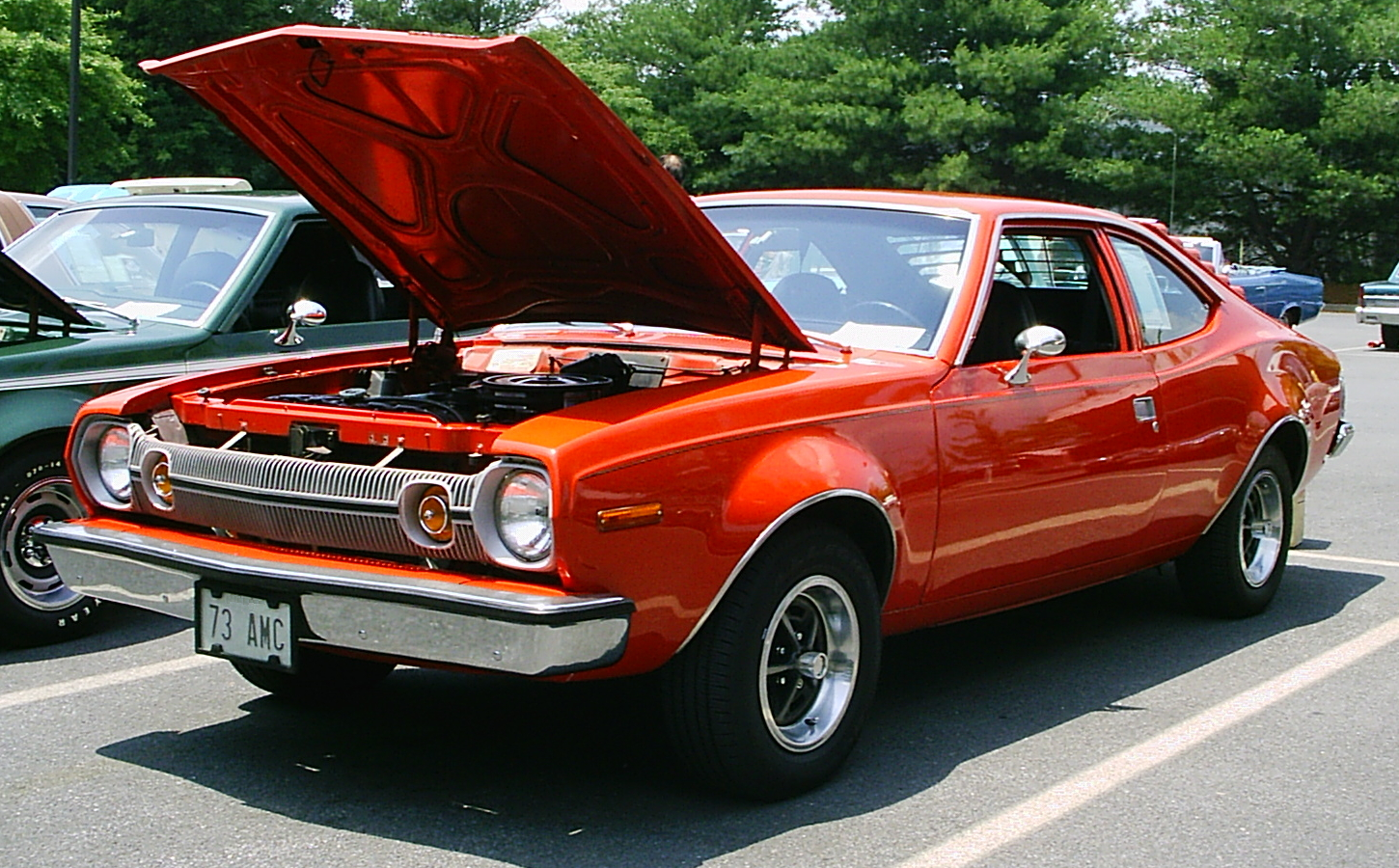 1973 Hornet 2-door hatchback by American Motors Corporation (AMC) with factory installed 304 CID (5 L) V8 engine.